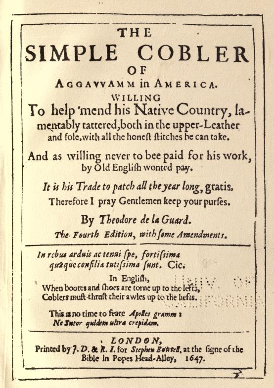 The title page of Theodore de la Guard [pseudonym; Nathaniel Ward] (1647) The Simple Cobler of Aggavvamm in America. Willing to Help 'Mend His Native Country, Lamentably Tattered, both in the Upper-leather and Sole, with all the Honest Stitches He can Take. And as Willing Never to bee Paid for His Work, by Old English Wonted Pay. It is His Trade to Patch all the Year Long, Gratis. Therefore I Pray Gentlemen Keep Your Purses, 4th amended edition, London: Printed by J[ohn] D[ever] & R[obert] I[bbitson] for Stephen Bowtell, at the signe of the Bible in Popes Head-Alley, OCLC 228721940.